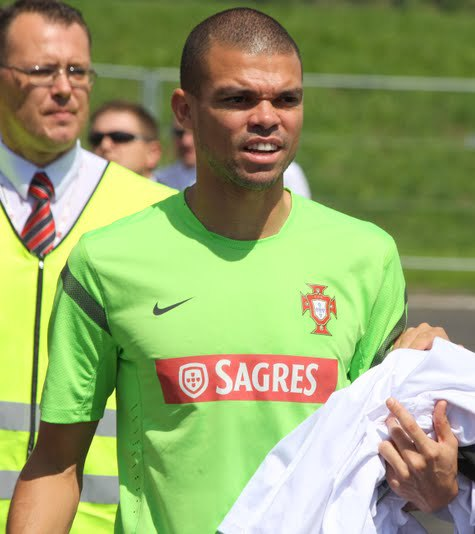 Pepe in Opalenica training camp (Poland), Euro 2012.